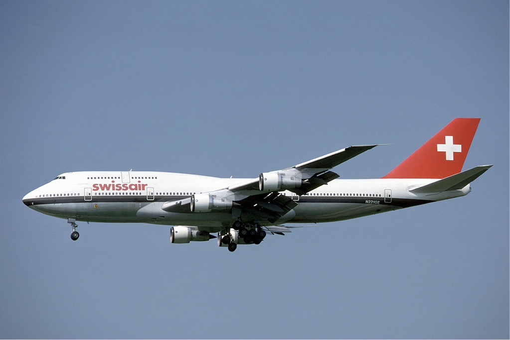 A Boeing 747 of Swissair at Zurich Airport